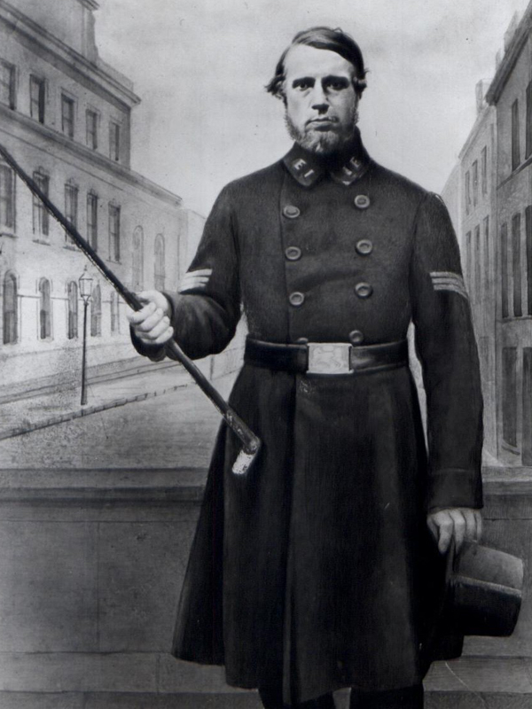 Sergeant Charles Brett, the first police officer to be killed on duty in Manchester. He was shot dead in a Fenian ambush on a police van.